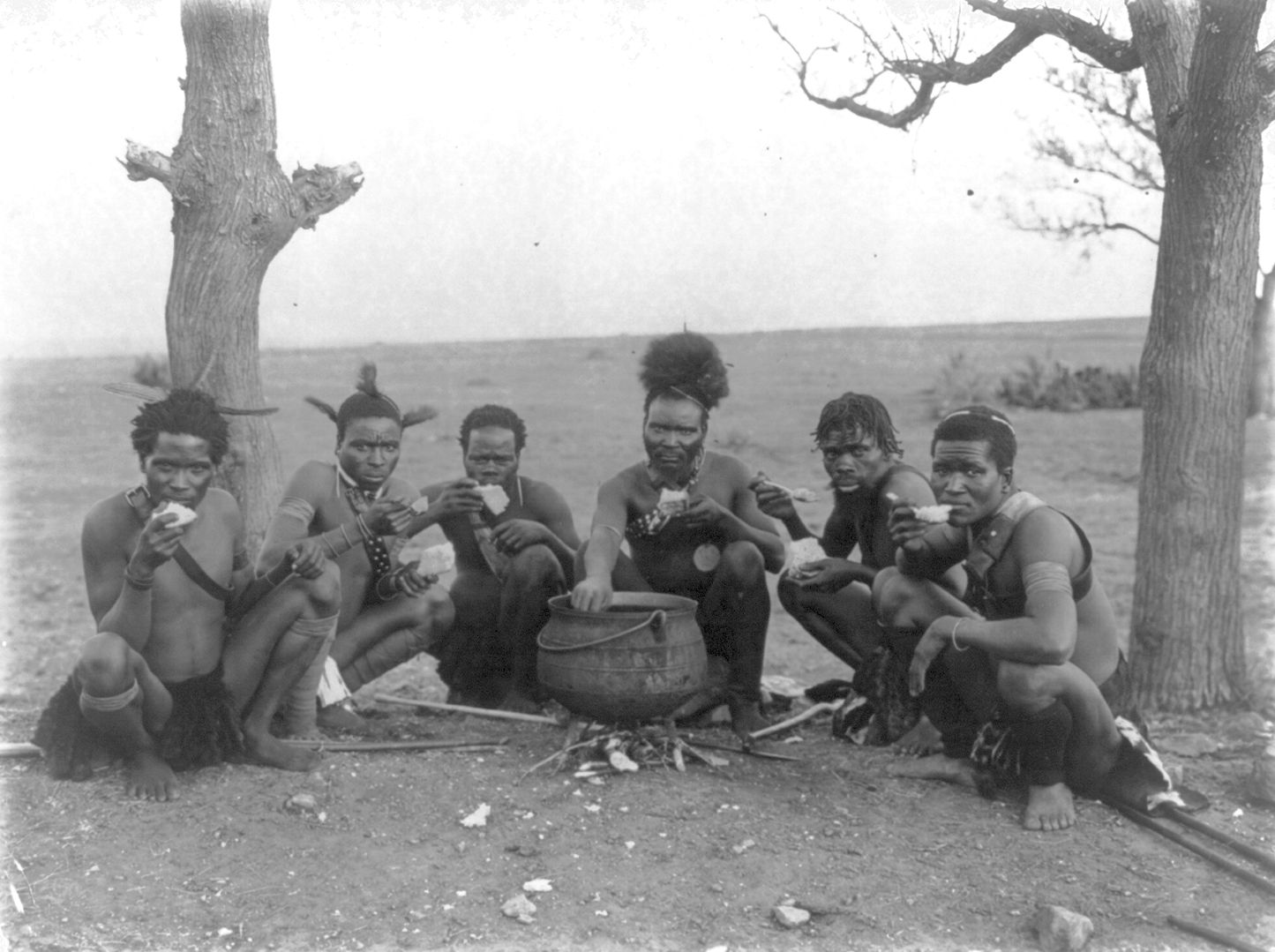 Zulu men eating - Native types of Africa. 192-?